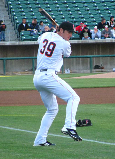 Roger Kieschnick warming up prior to a Fresno Grizzlies game on April 14, 2012.